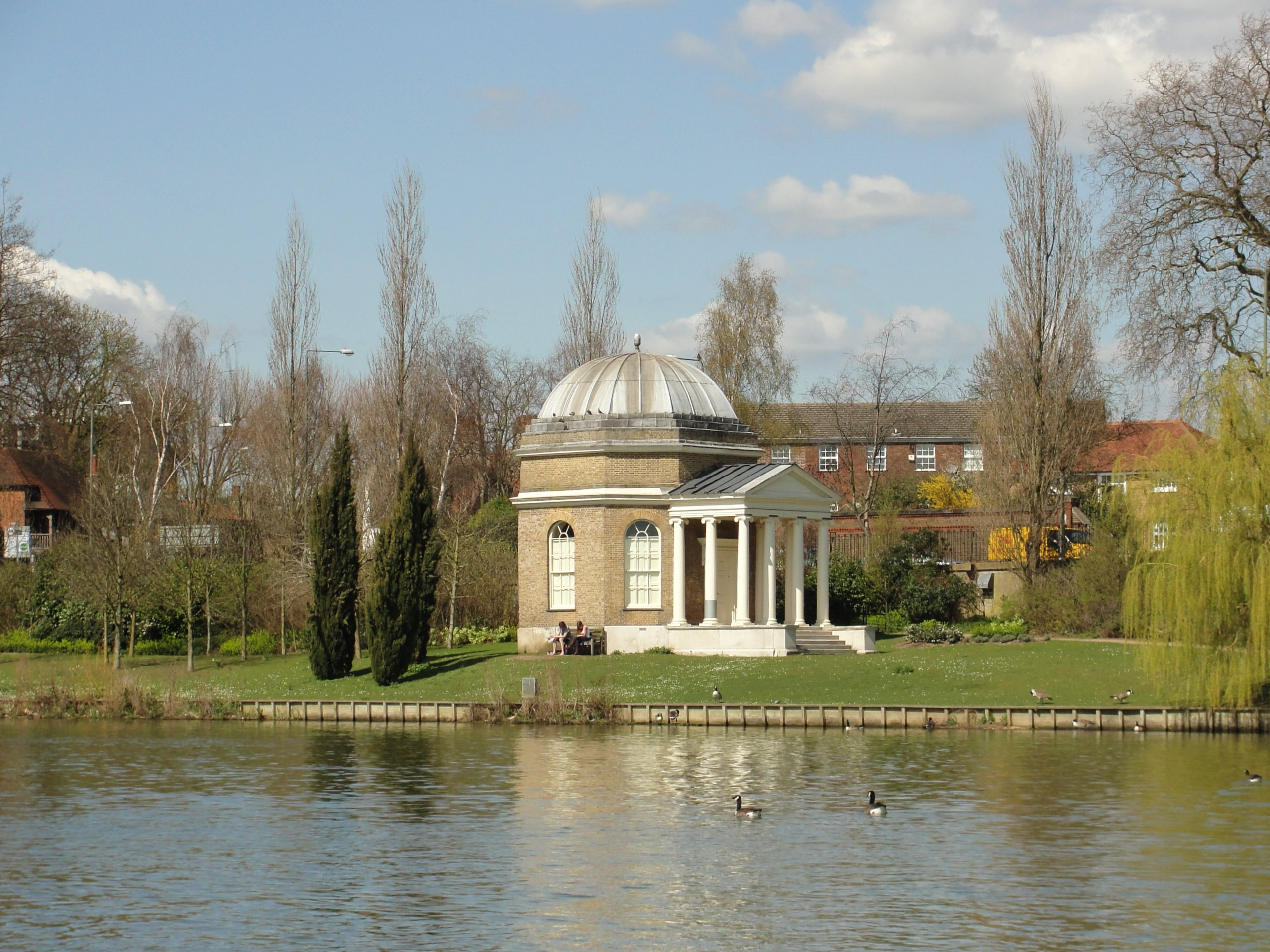 Garrick's Temple on the Thames Riverside at Hampton was built by the great 18th century actor-manager David Garrick in 1756 to celebrate the genius of William Shakespeare.